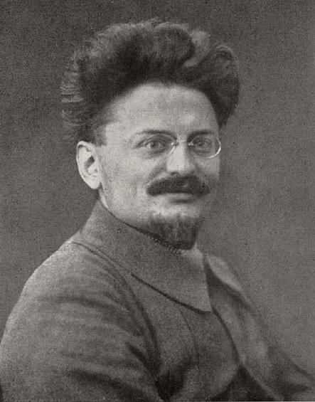 Russian revolutionary politician, Lev Trotsky.